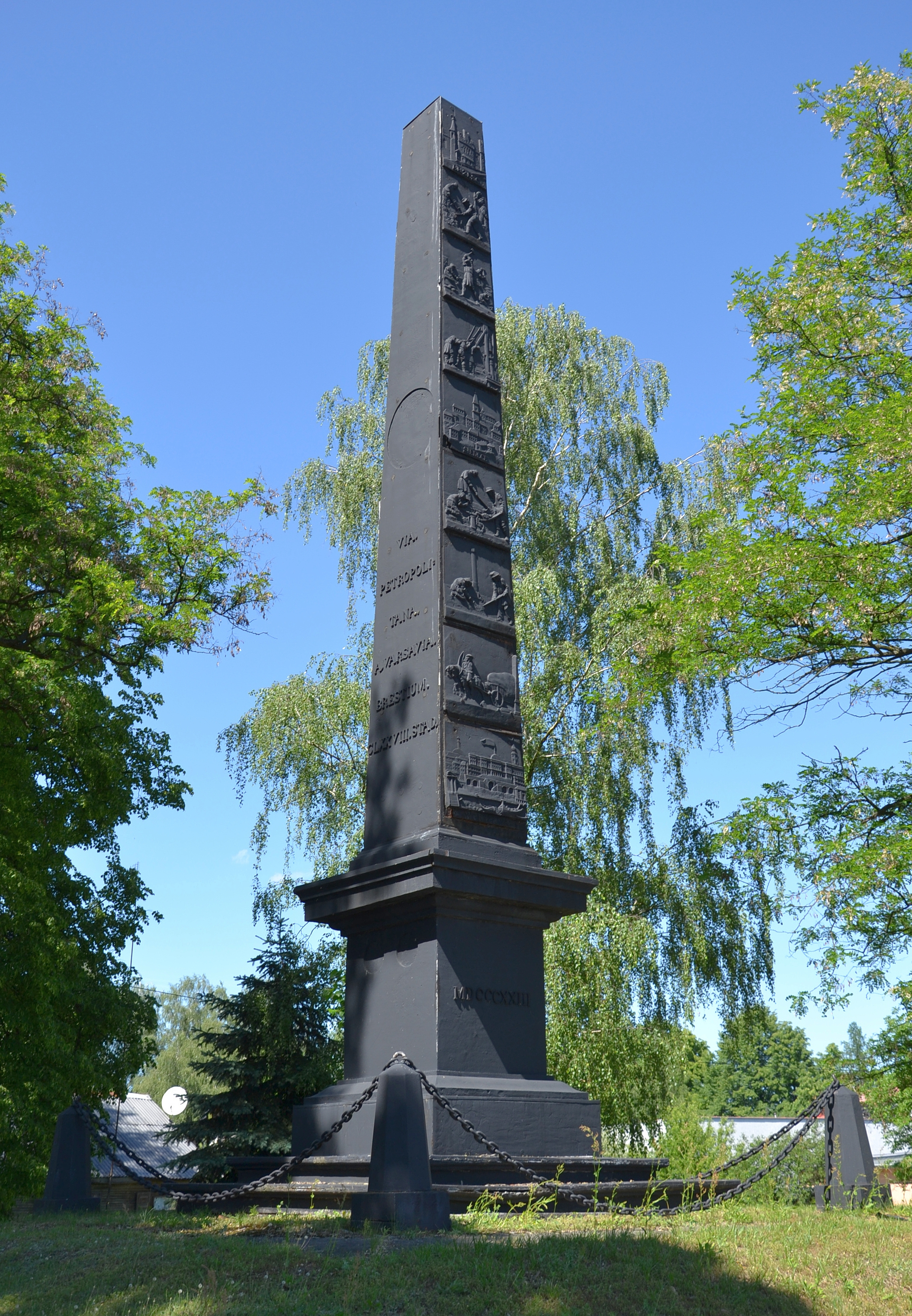 Terespol, Poland - Monument to the construction of the Warsaw-Brest Highway